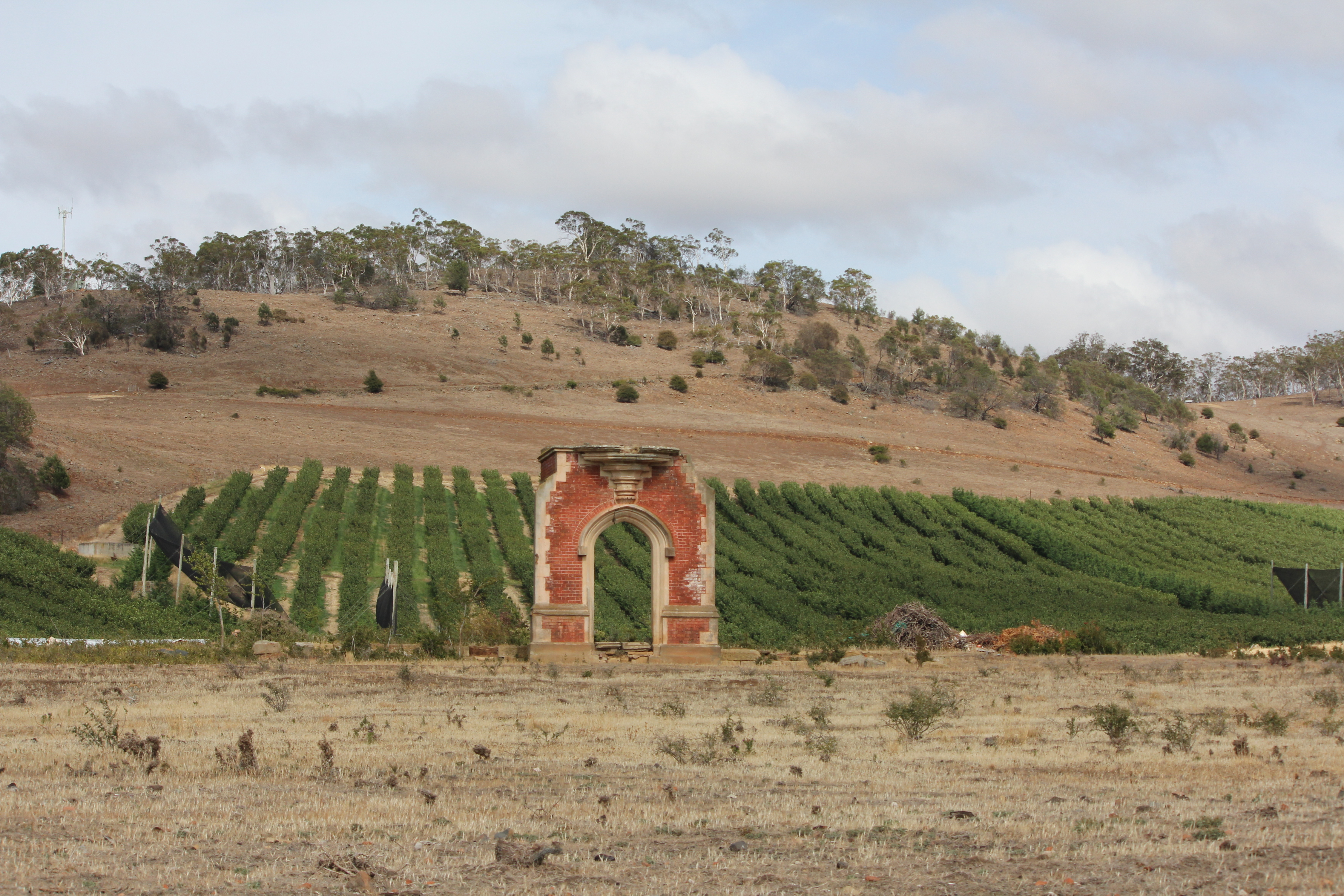 The ruins of Horton College at Mona Vale near Ross.